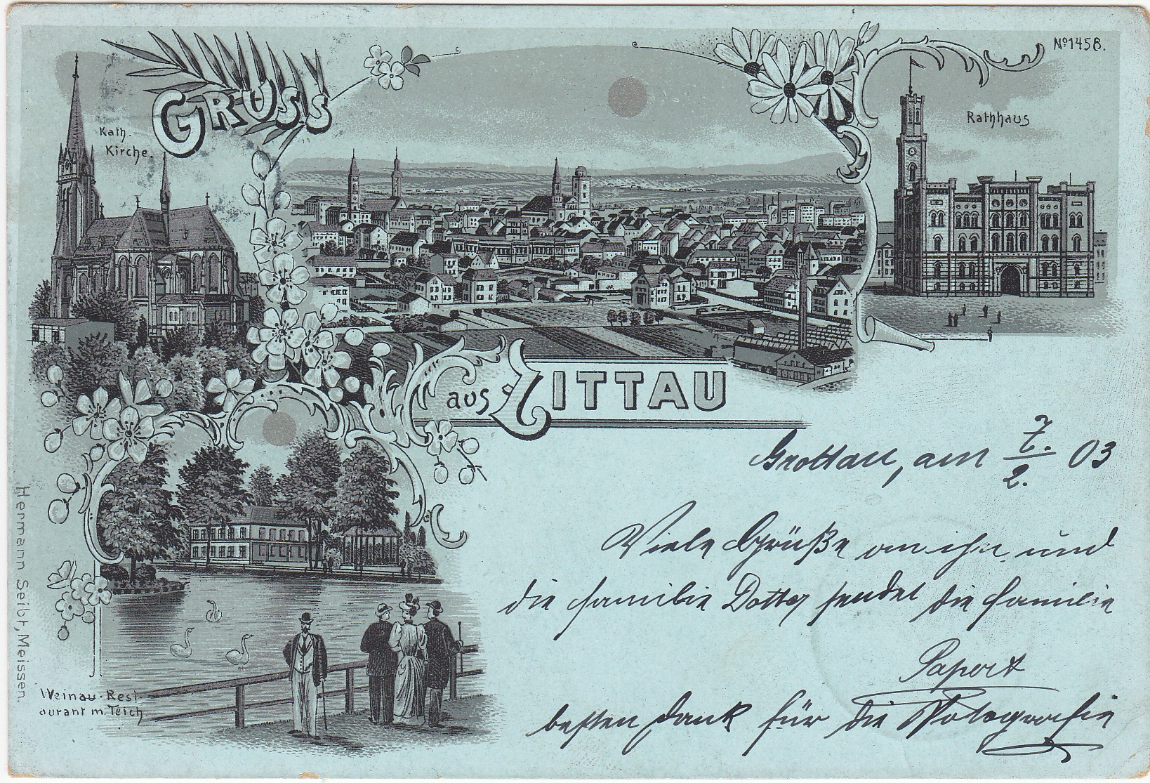 Multi-view moonlight picture postcard of Zittau, Germany.